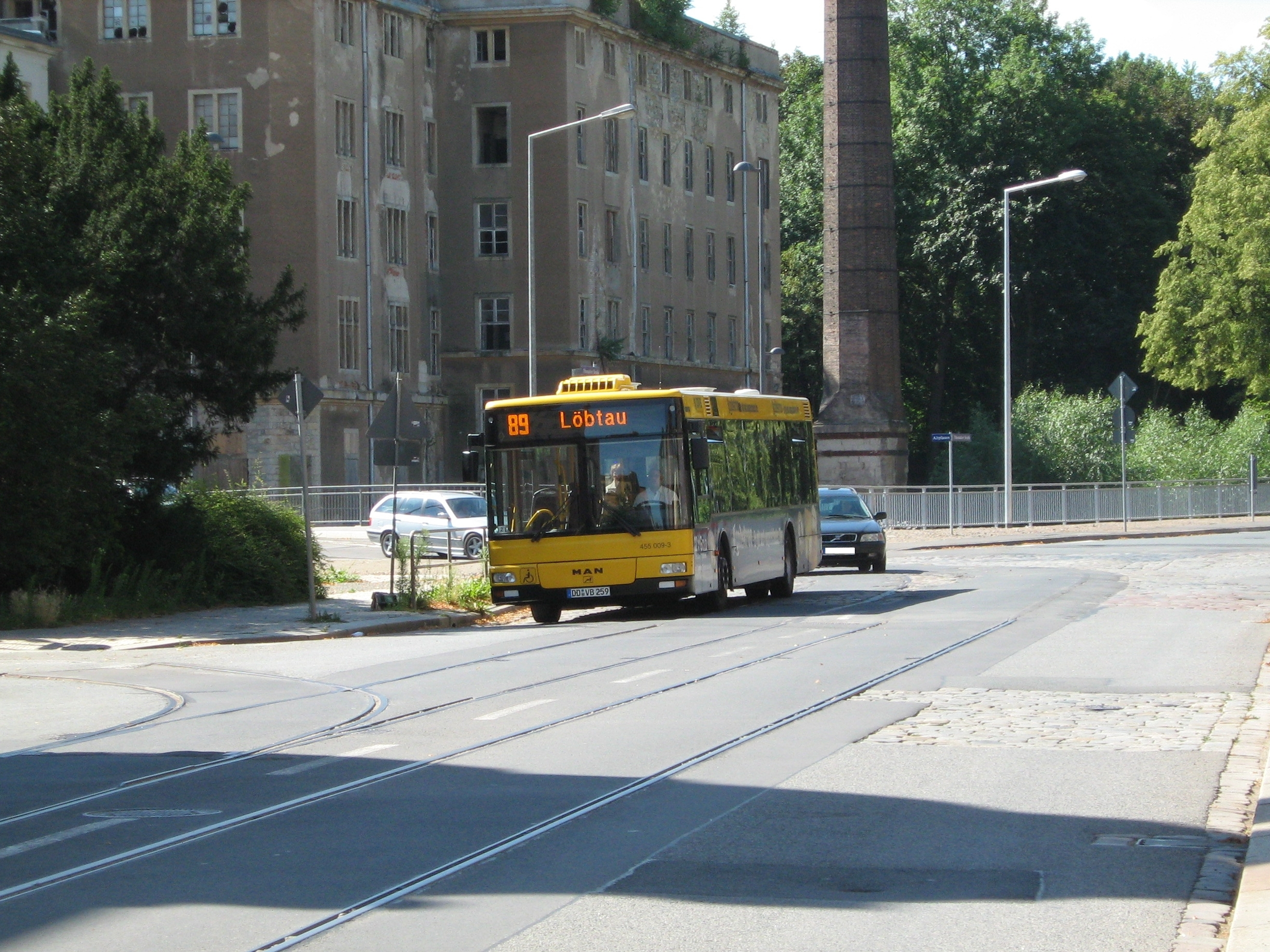 MAN A21 Lion's City, Tharandter Straße, Dresden